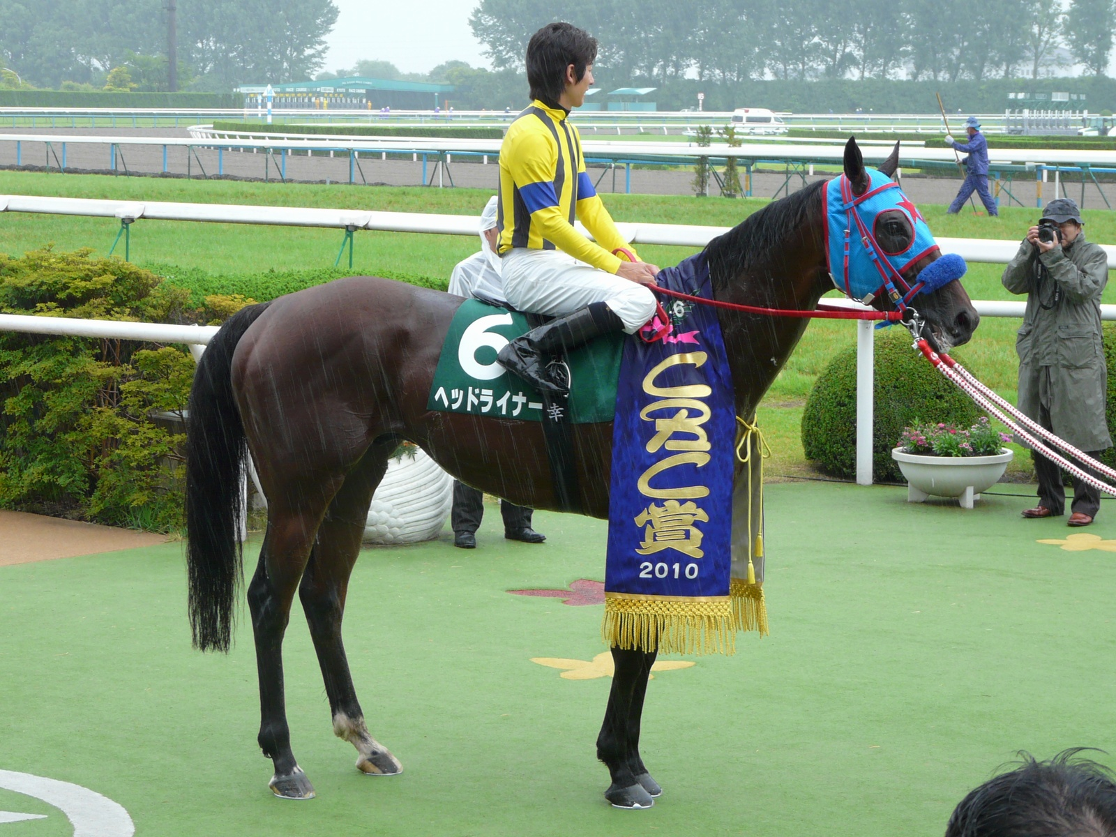 Headliner20100613